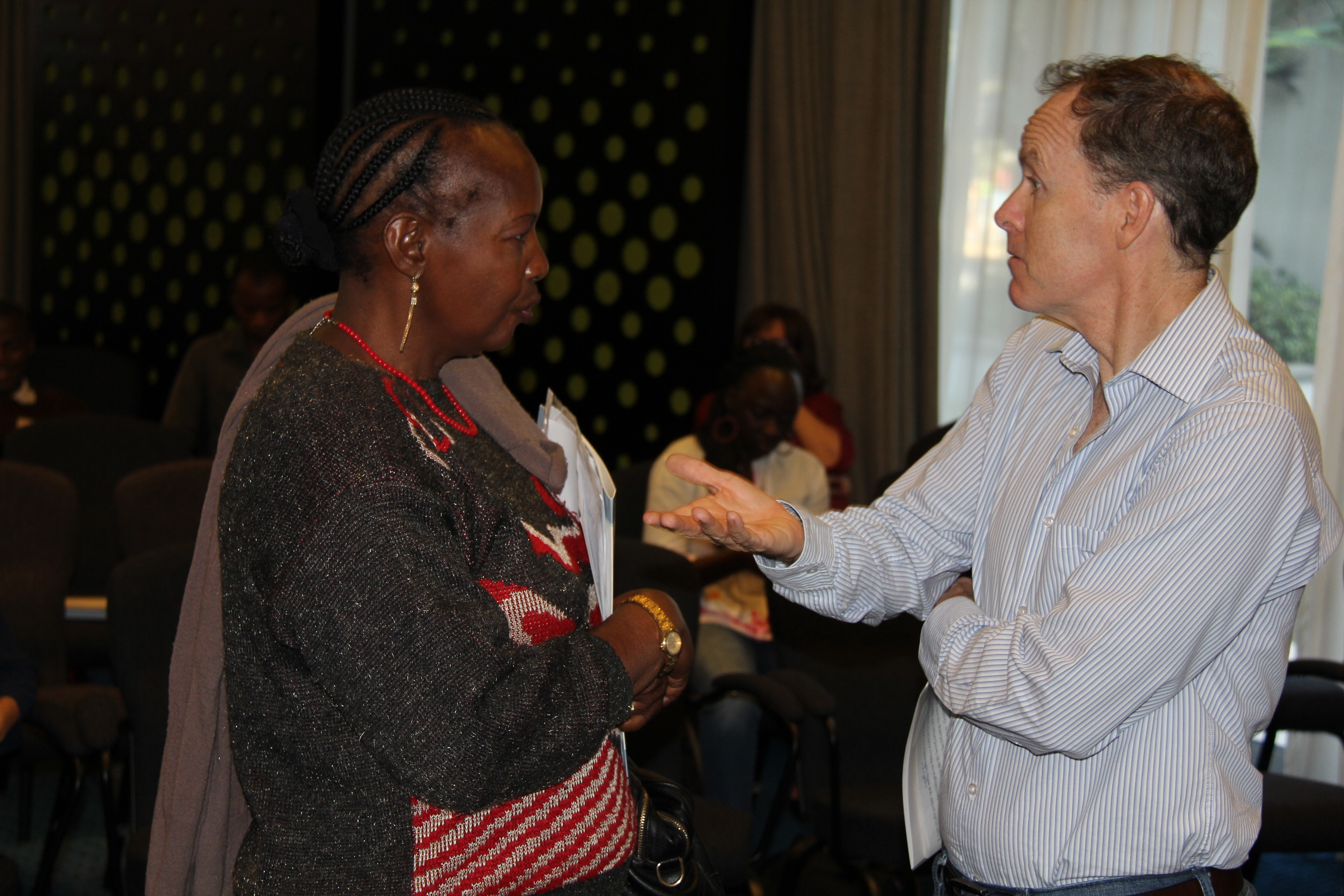 US Embassador Griffiths talking with human rights activist Alice Mabota during the "Machamba de Tecnologias" techcamp in Maputo, Mozambique